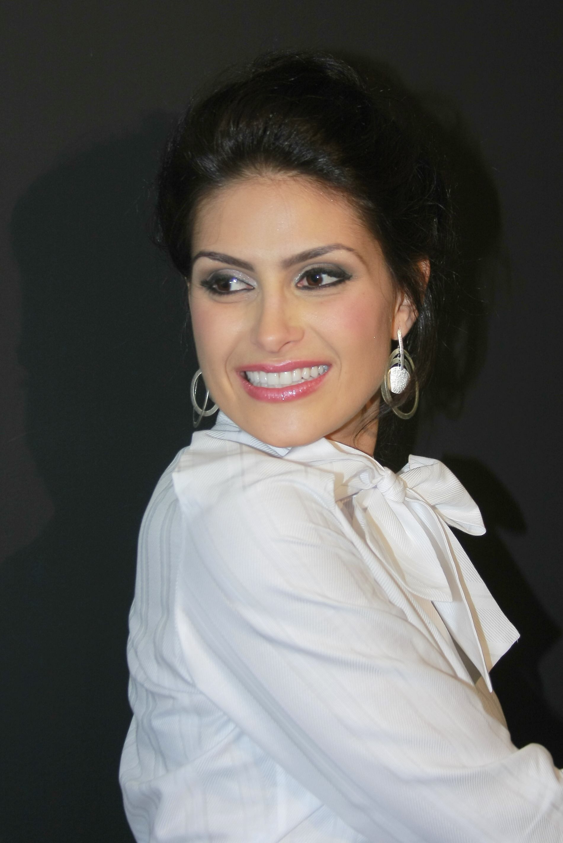 Natália Guimarães in Crystal Fashion 2008.